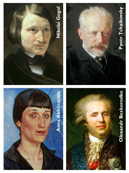 People on the photo: Nikolai Gogol (writer), Pyotr Tchaikovsky (composer), Anna Akhmatova (writer), Olexandr Bezborodko (architect).